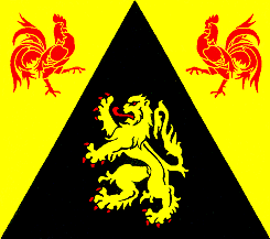 Flag of Brabant Walloon